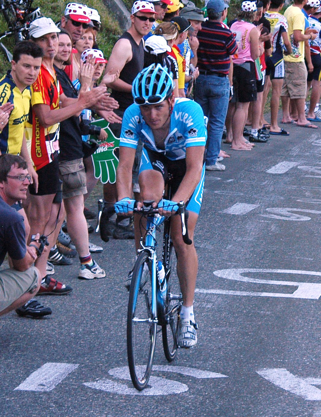 Alessandro Cortinovis at stage 7 of the Tour de France 2007 on the Col de la Colombière.